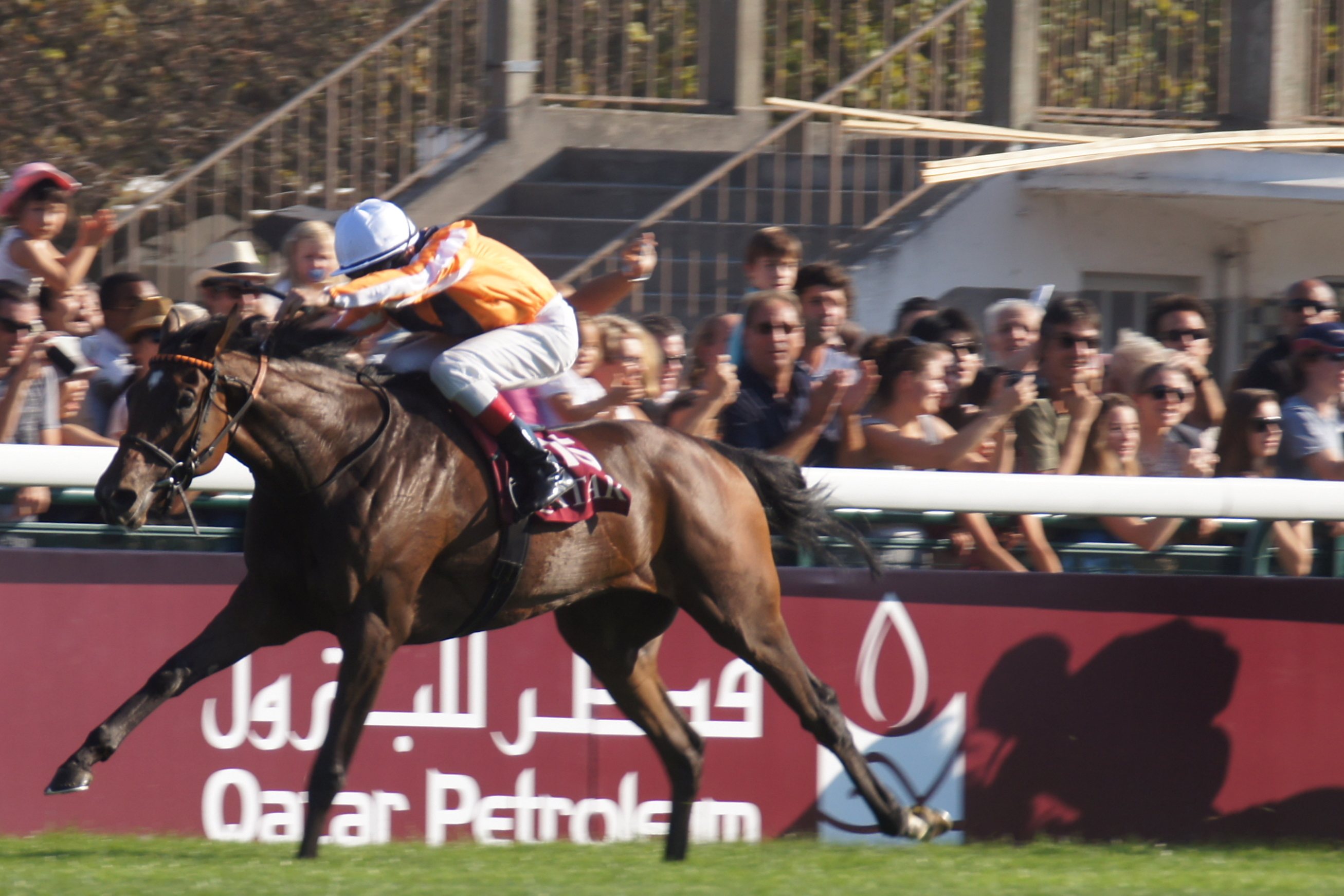 Danedream winning the Arc, followed first by her shadow, then the rest of the field at a respectable distance. To be honest, she wasn't that much fancied by the turfistes and everyone was looking around in silence when she came to win the race? What was the name of that small horse in orange who had just burst from the pack? The jockey, Andreas Starke, did a great job to enthuse and entertain the crowd as he rode her back past the grandstands and all the connections were clapped and cheered when they came to collect their prizes. The nearest we came was third, where Fred and I had a small bet on Frankie Dettori riding the totally inaptly named (for the day) Snow Fairy.